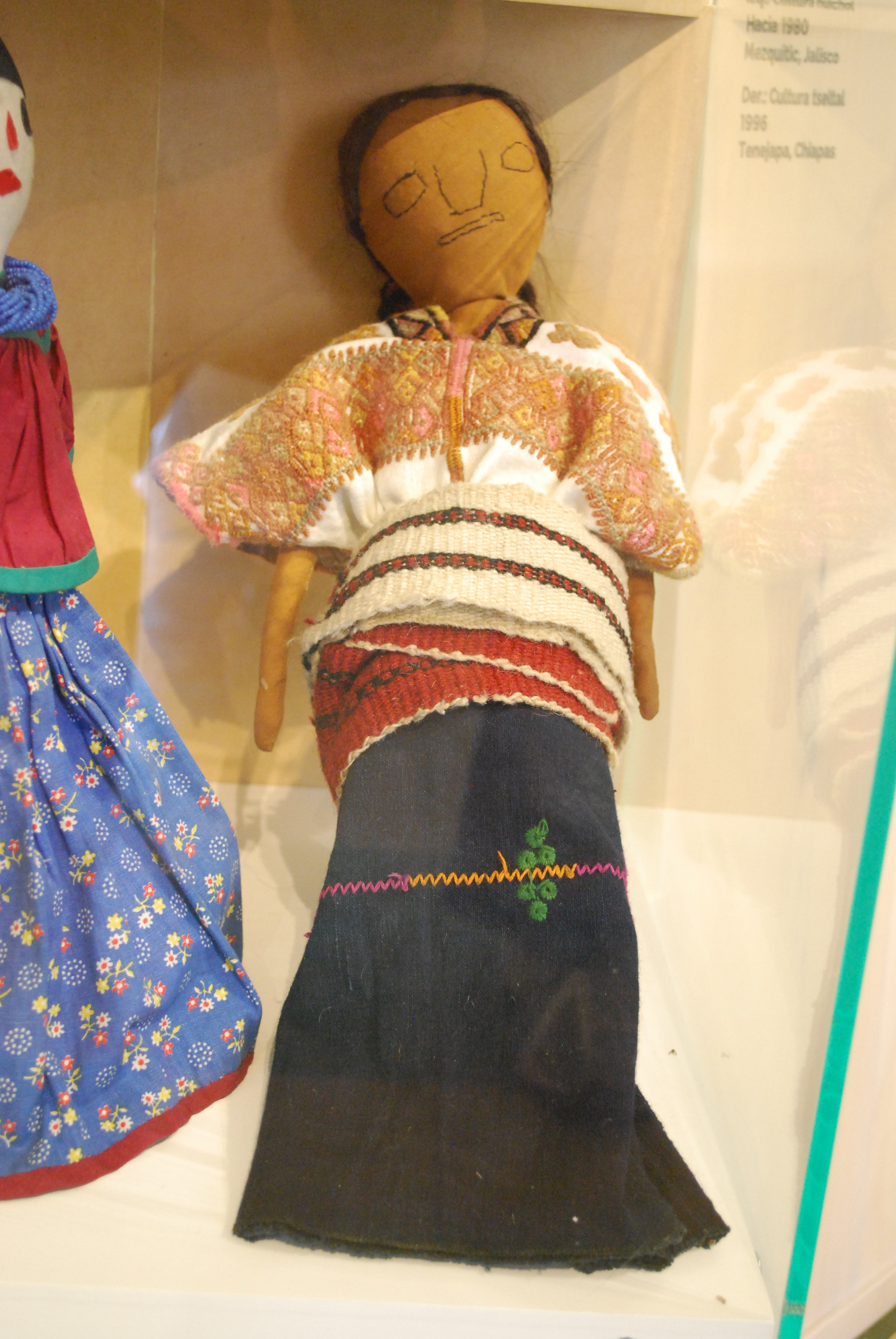 1996 rag doll from Tenejapa, Chiapas representing the Tseltal culture at the Centro de Desarrollo Artesanal Indígena in Santiago de Queretaro